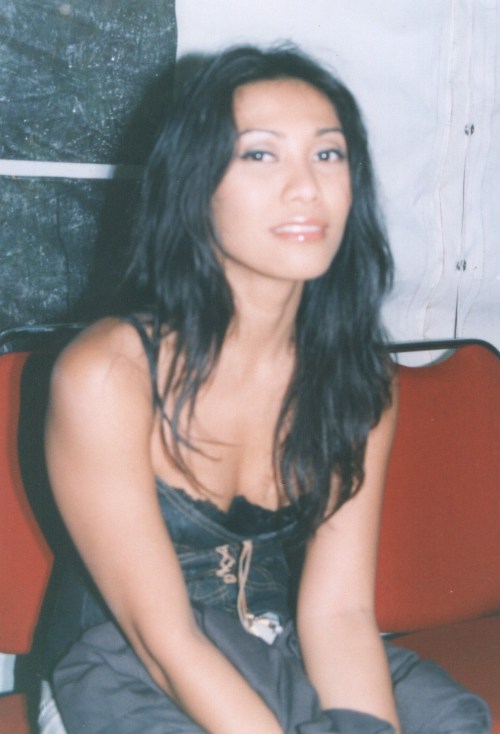 Anggun after Spirit of Peace Concert, Yogyakarta, Indonesia, March 1st, 2003